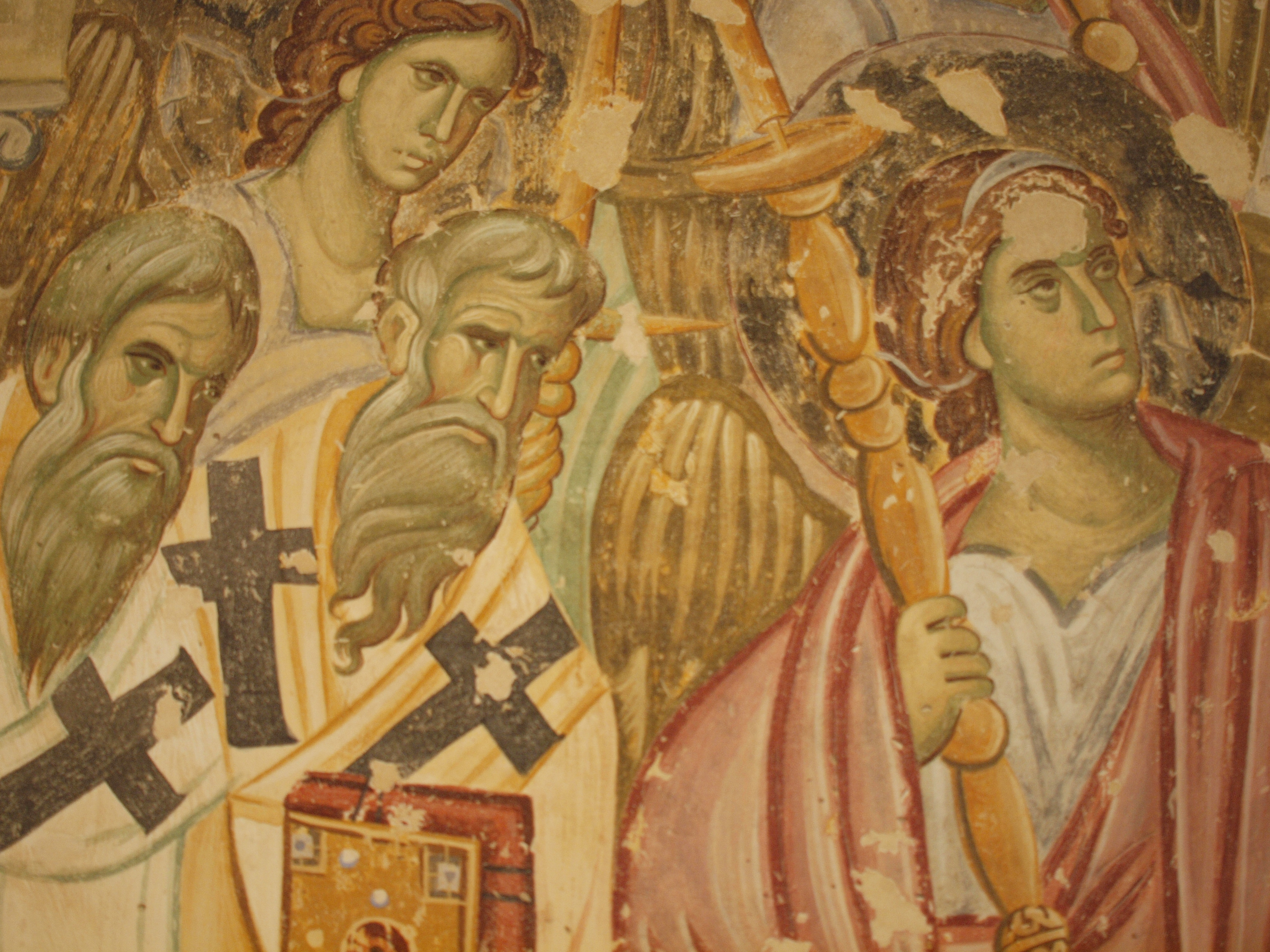 Tod der Gottesmutter Sopocani